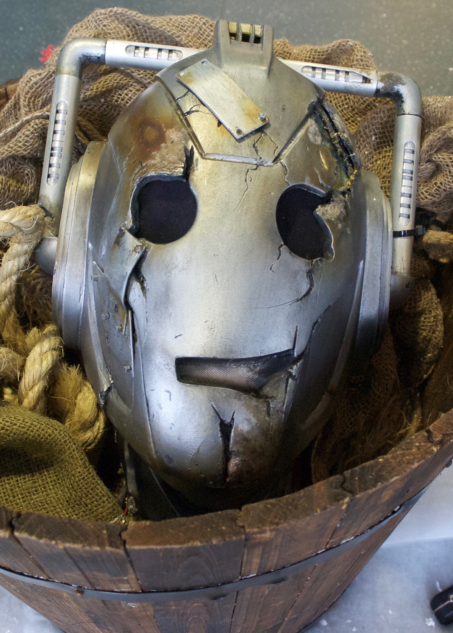 Head in a bucket Doctor Who Experience